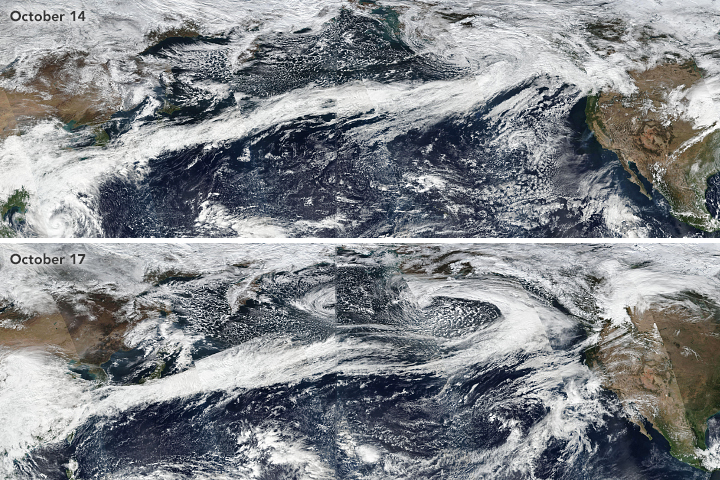 NASA Earth Observatory Image of the Day October 26, 2017 Atmospheric river connecting Asia and North America October 26, 2017